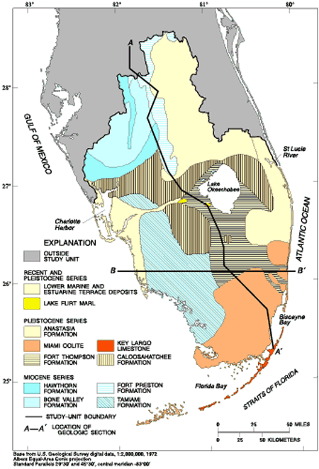 A map showing various limestone formations in South Florida, created by the U.S. Geological Survey.